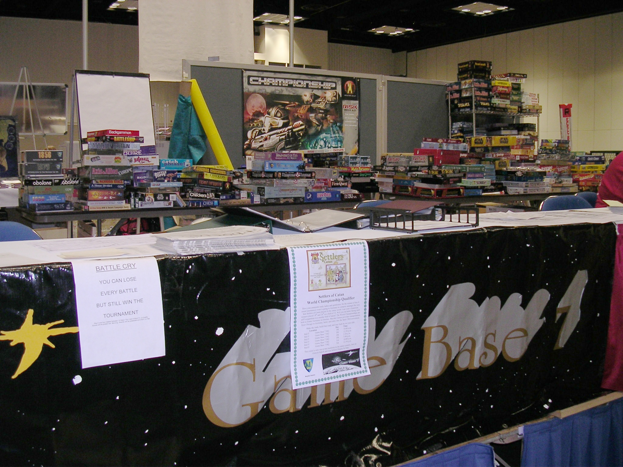 table at Gen Con Indy on 2003-07-24. Game Base 7 organizes games as well as running a games library from which games can be borrowed. The photograph has been modified to lighten the image.